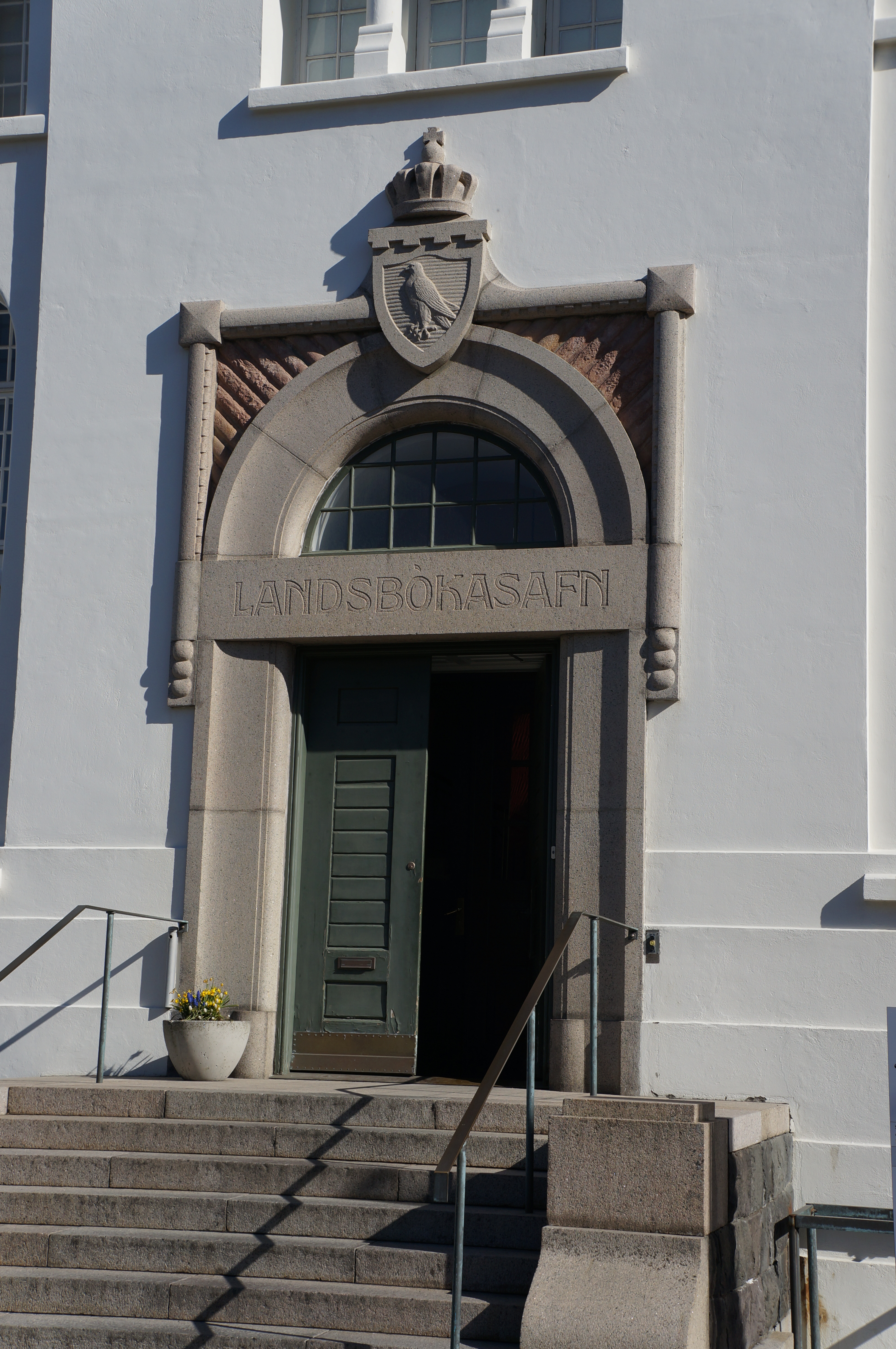 The Þjóðmenningarhús (Cultural House), Reykjavík, Iceland.